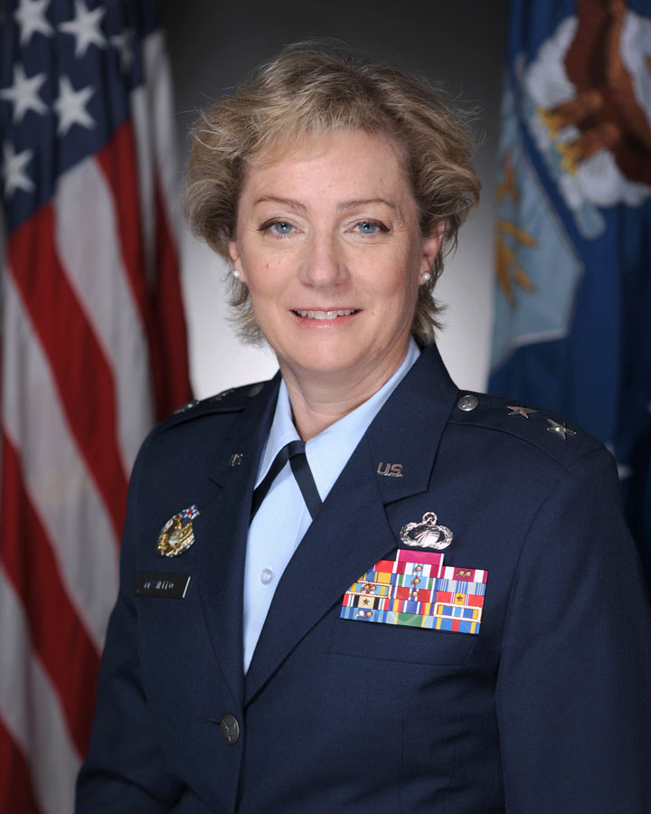 Major General Wendy Lee Motlong Masiello, USAF